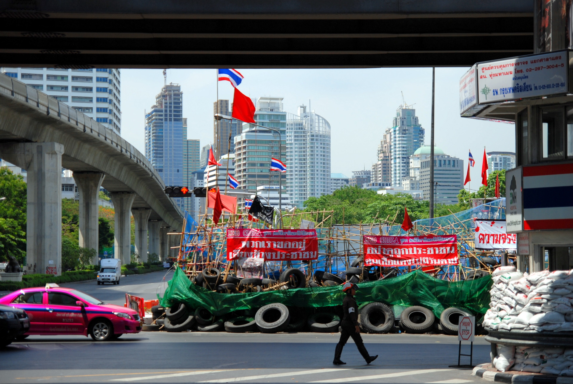 The red shirt barricades at Lumpini Park on the corner of Rama 4 road and Silom road.